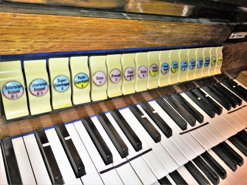 Orgel- und Spieltischsammlung im Untergeschoss der Zollingerhalle (Orgelzentrum Valley)